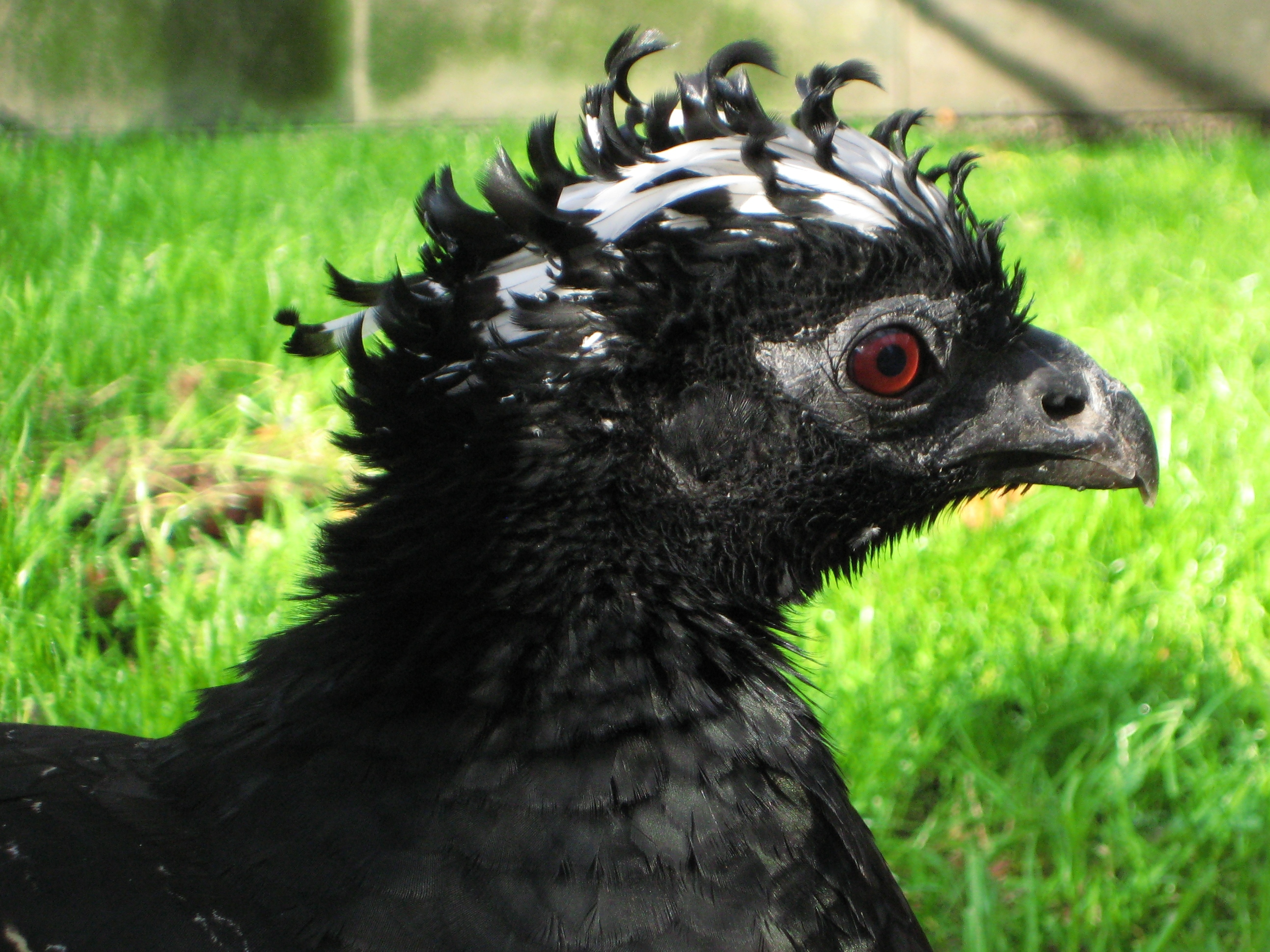 Bare-faced Curassow at the Zoo of Berlin